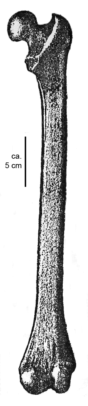 Historical drawing of the holotype of Paidopithex rhenanus POHL (Primates: ?Pliopithecidae), a right upper limb bone (femur), here in posterior (plantar) view, from the Upper Miocene (Tortonian) of Eppelsheim (Eppelsheim Fm., f.k.a. Dinotherium sands; Mainz Basin), Rhineland-Palatinate, Germany.